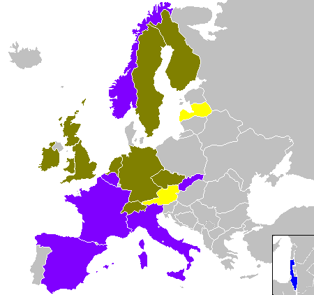 Men's participants of 2012 acrosse European Championships participants Men's & women's team Only men's team Only women's team